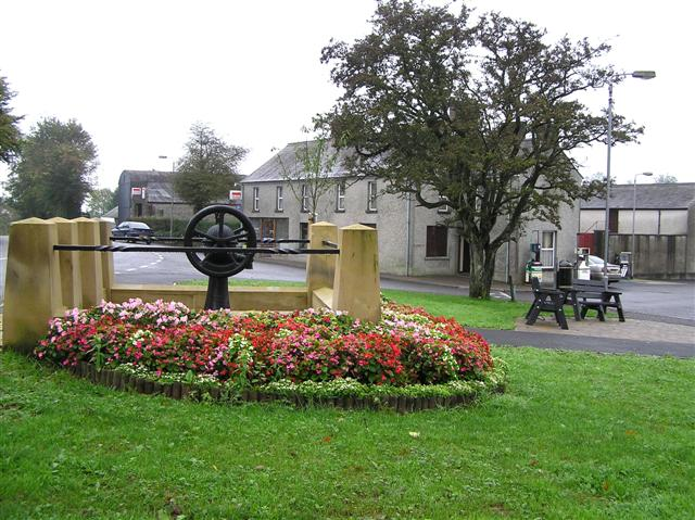 The Rock It is located between Cookstown and Pomeroy